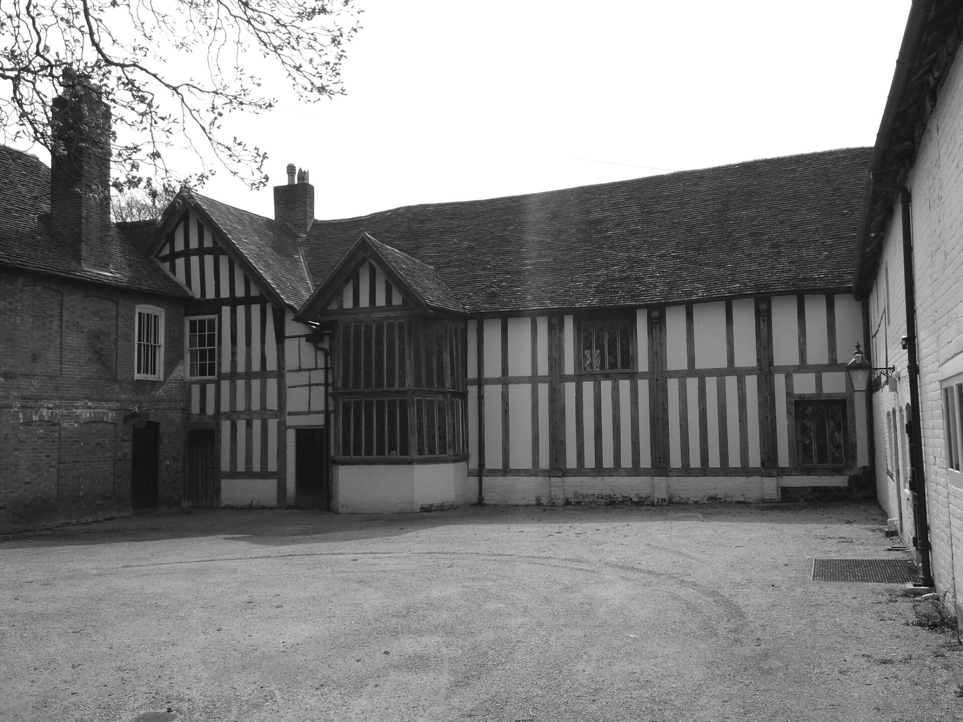 Worcester walk April 2014